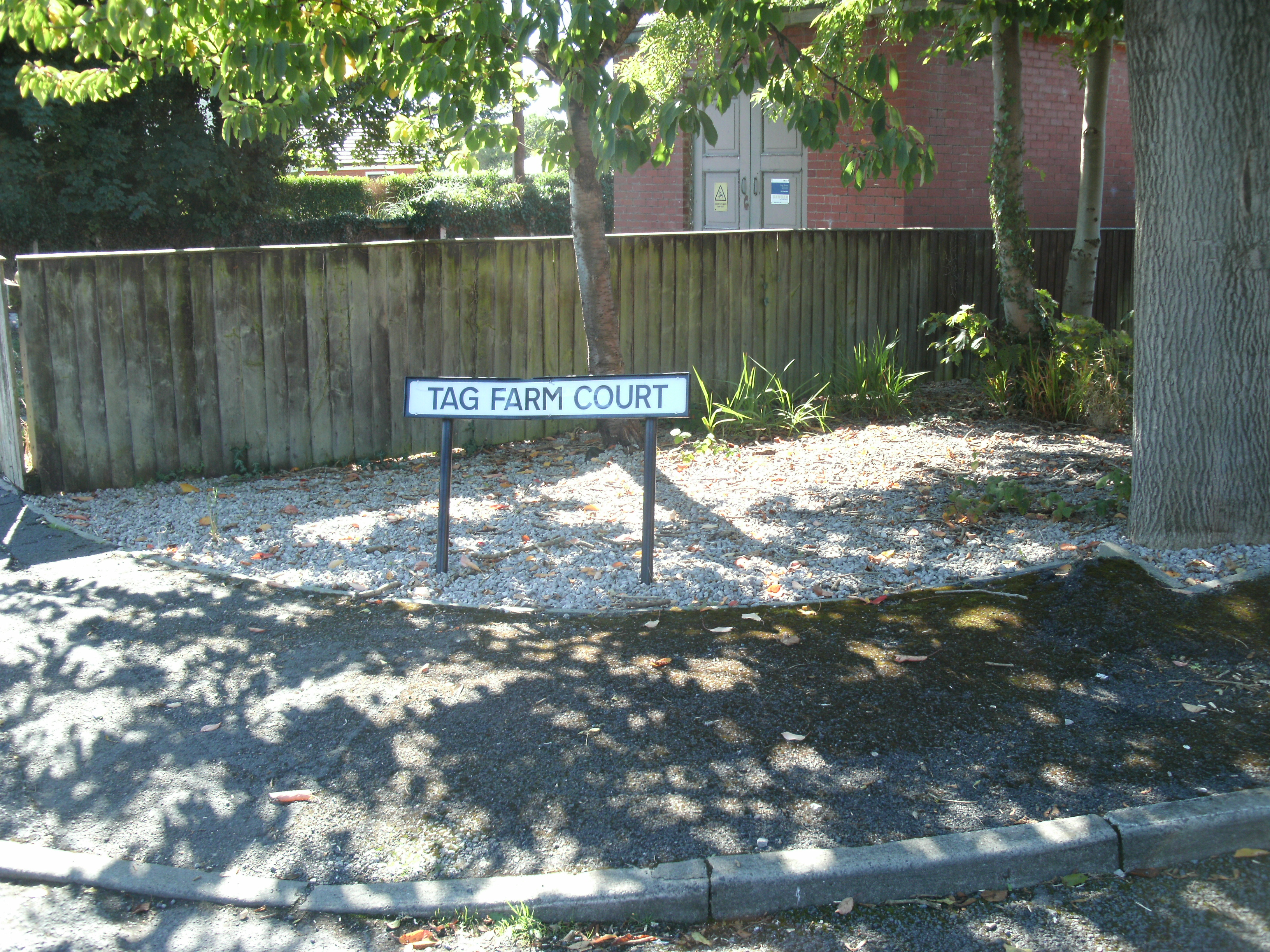 Photograph taken by me of the former location of The Tagg